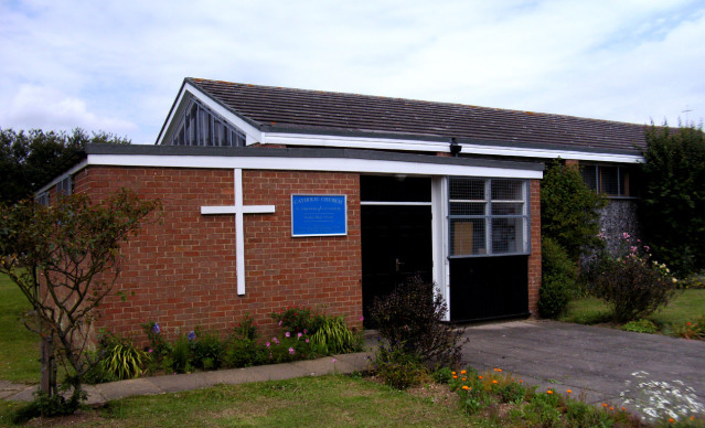 St Theodore of Canterbury RC Church Colchester Essex